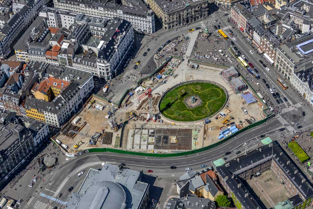 Air photo of the City Circle Line being built, part of the Copenhagen Metro. I got the following permission to use these images from kjeld madsen on 2014-10-07: Dragør Luftfoto ApS frigiver hermed billederne i galleriet under licensen Creative Commons Attribution ShareAlike 3.0 license.